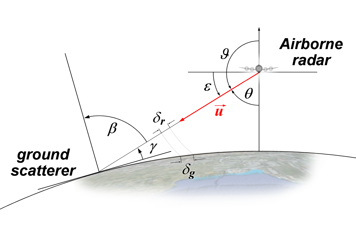 Definition of angles in the vertical plane of Side Looking Airborne Radar (SLAR): β = incidence angle γ = grazing angle ε = depression angel θ = 90° - ε = Look angle ϑ = ε + 90° Angle used for spherical coordinate system δr = range resolution in slant plane δg = range resolution in ground plane